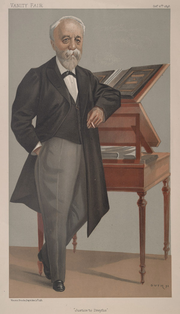 Caricature of M H Brisson. Caption read "Justice to Dreyfus".